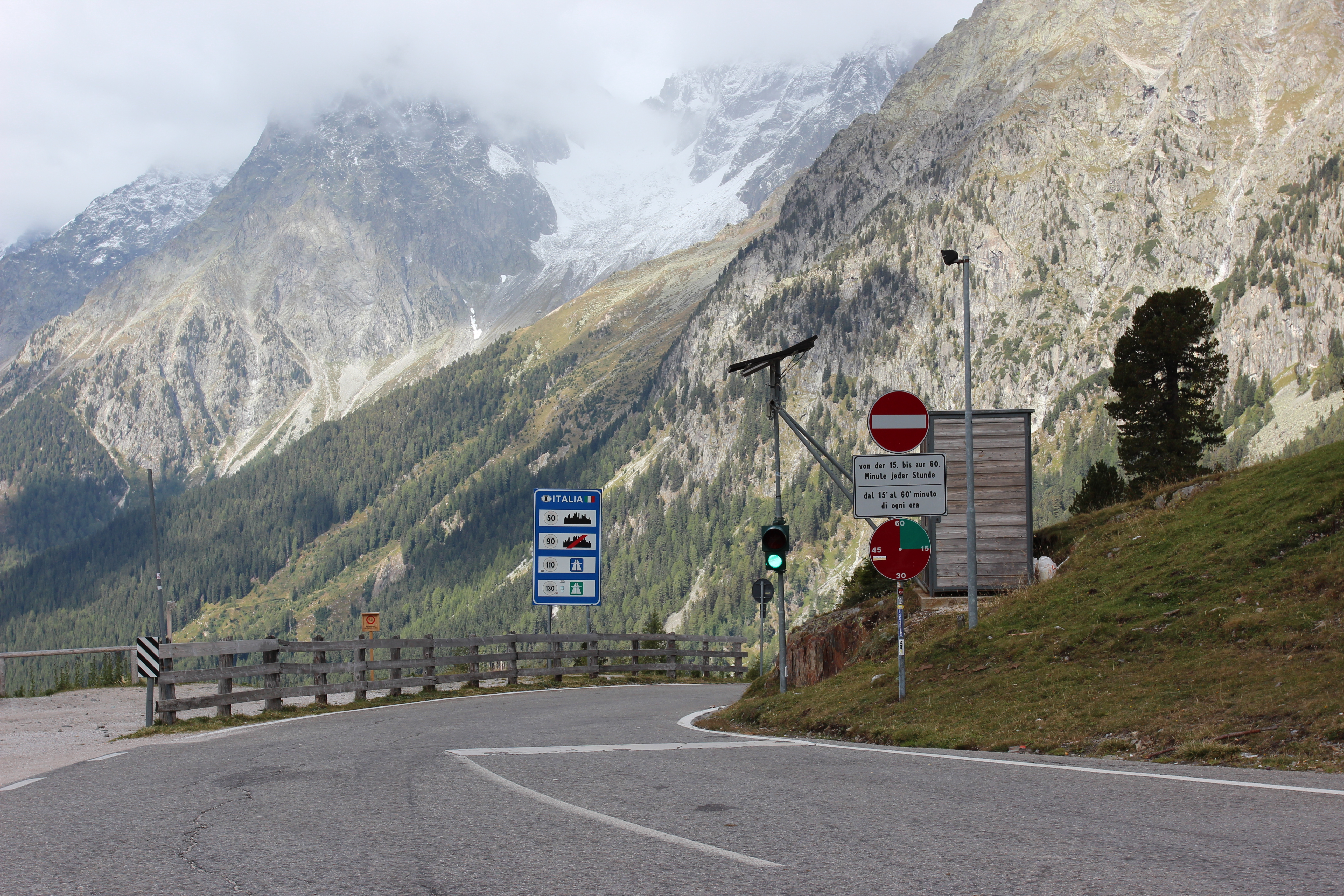 Ampelregelung - Staller Sattel